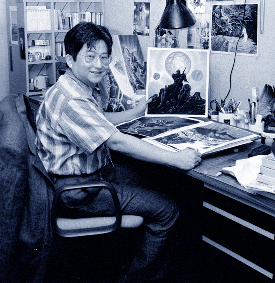 "Crazy School" creator Go Nagai in his Tokyo studio, 1987, photograph by Sally Larsen